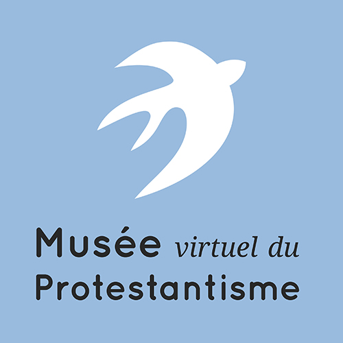 Logo of the Virtual Museum of Protestantism